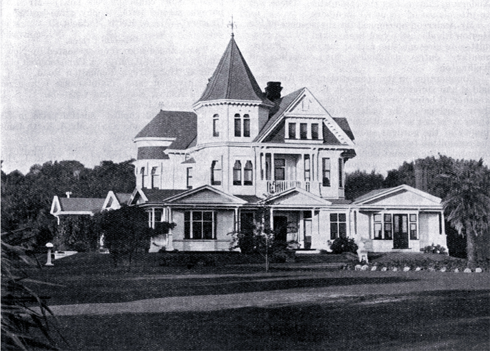 Fitzroy : residence of R.E. McDougall (1860-1942), Papanui Road, Christchurch. Built around 1900 by the England brothers, this house was the family home of the McDougalls until 1949 when the family gave it to the Nurse Maude District Nursing Association. In 1932 the garden was winner of Class C, Home Gardens, Competition for St Albans district.